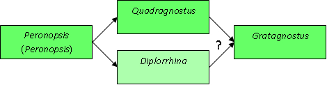 Schematic showing the relationship between the different subgenera of Peronopsis (light green), other Peronopsid genera (darker green) and other families (other colors). Based on E. B. Naimark (2012). Hundred species of the genus Peronopsis Hawle et Corda, 1847. Paleontological Journal 46(9):945-1057